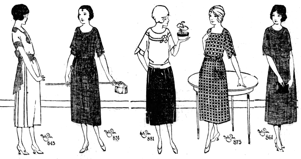 Five house dresses by Nelly Don, 1922. Described as follows: Slip-over apron frock of plain Kalburnie gingham, checked trim. Kalburnie checked gingham, ric-rac trim, in slip over style. One-piece slip-over frock, bodice in overblouse effect, made of Jap crepe in assorted colours, skirt of black sateen. Slip-over apron frock, percale, trimmed in black bindings. Yomac checked gingham, trimmed in pique bands and pearl slides; opened down the back; elastic waistband.